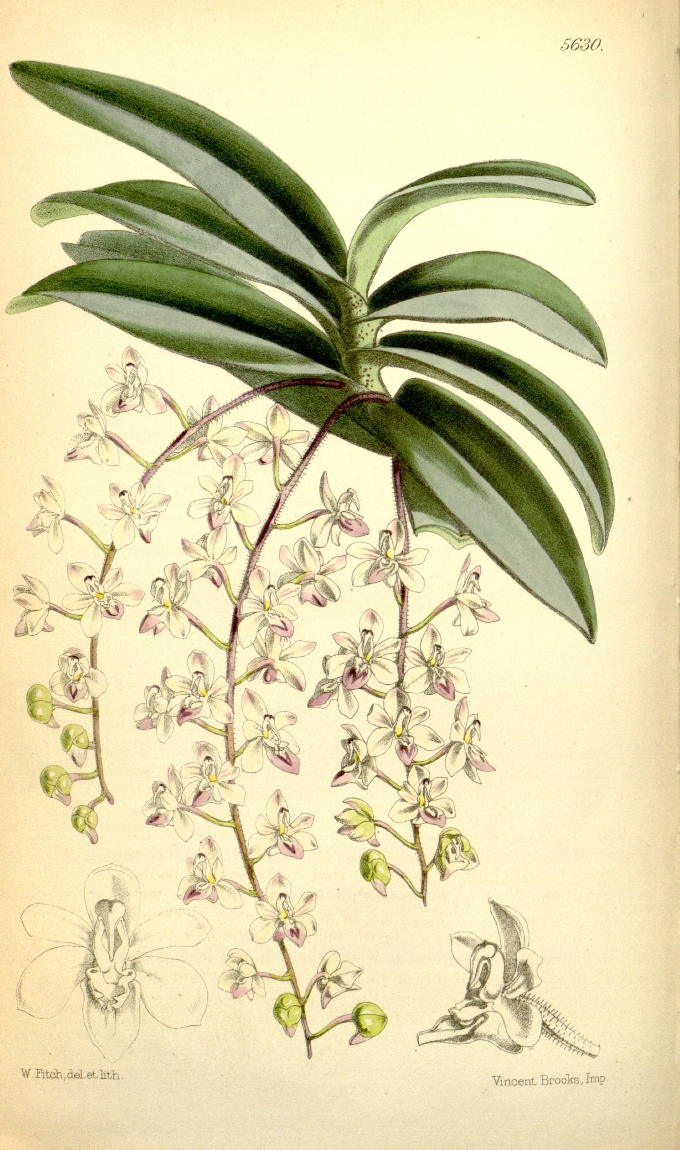 Illustration of Stereochilus erinaceus (as syn. Sarcanthus erinaceus)